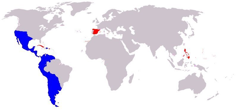 A map of the Spanish Empire and former Spanish territories which became independent nations following the Spanish American wars of independence as at 1824. Territories under the sovereignty of the Spanish Empire are in red, and nations which became independent between 1810 and 1824 in blue.